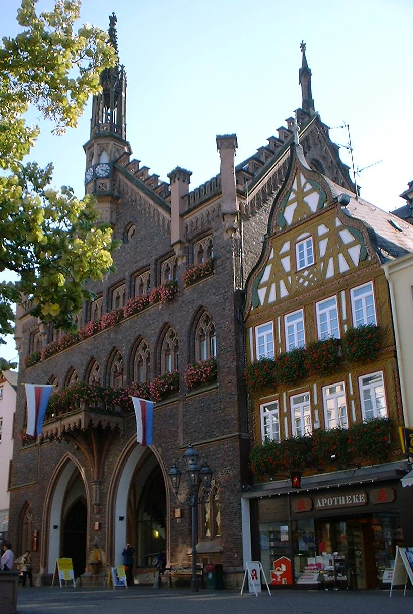 Town hall in Montabaur, Germany